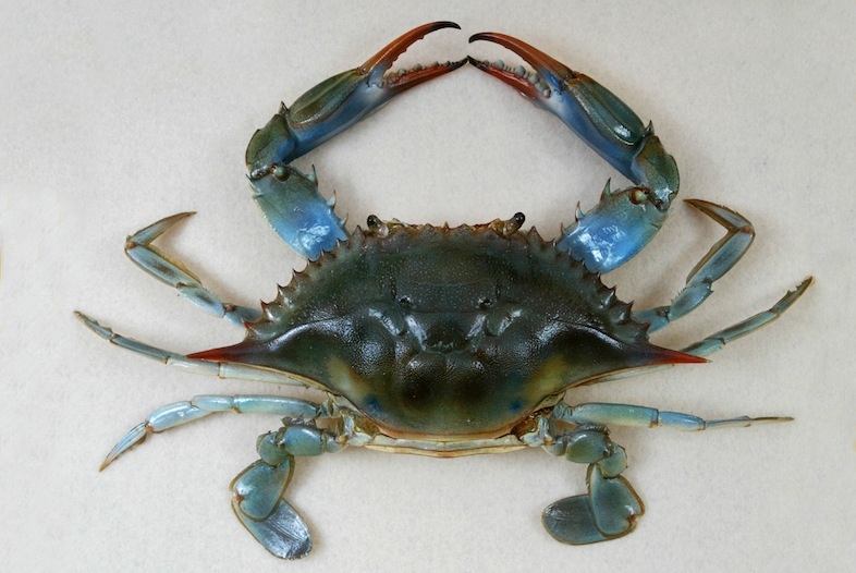 A female Atlantic Blue Crab (Callinectes sapidus) in the permanent collection of The Children’s Museum of Indianapolis